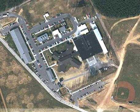 Luftbild Operations 6910th Security Wing mit damaligem Baseball-Feld (Stand 2003)